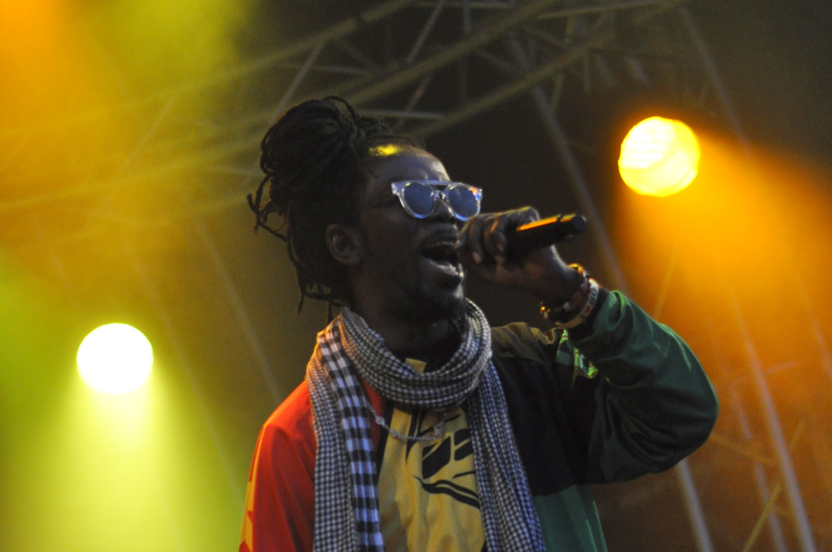 Kenny B performing at the Zwarte Cross festival